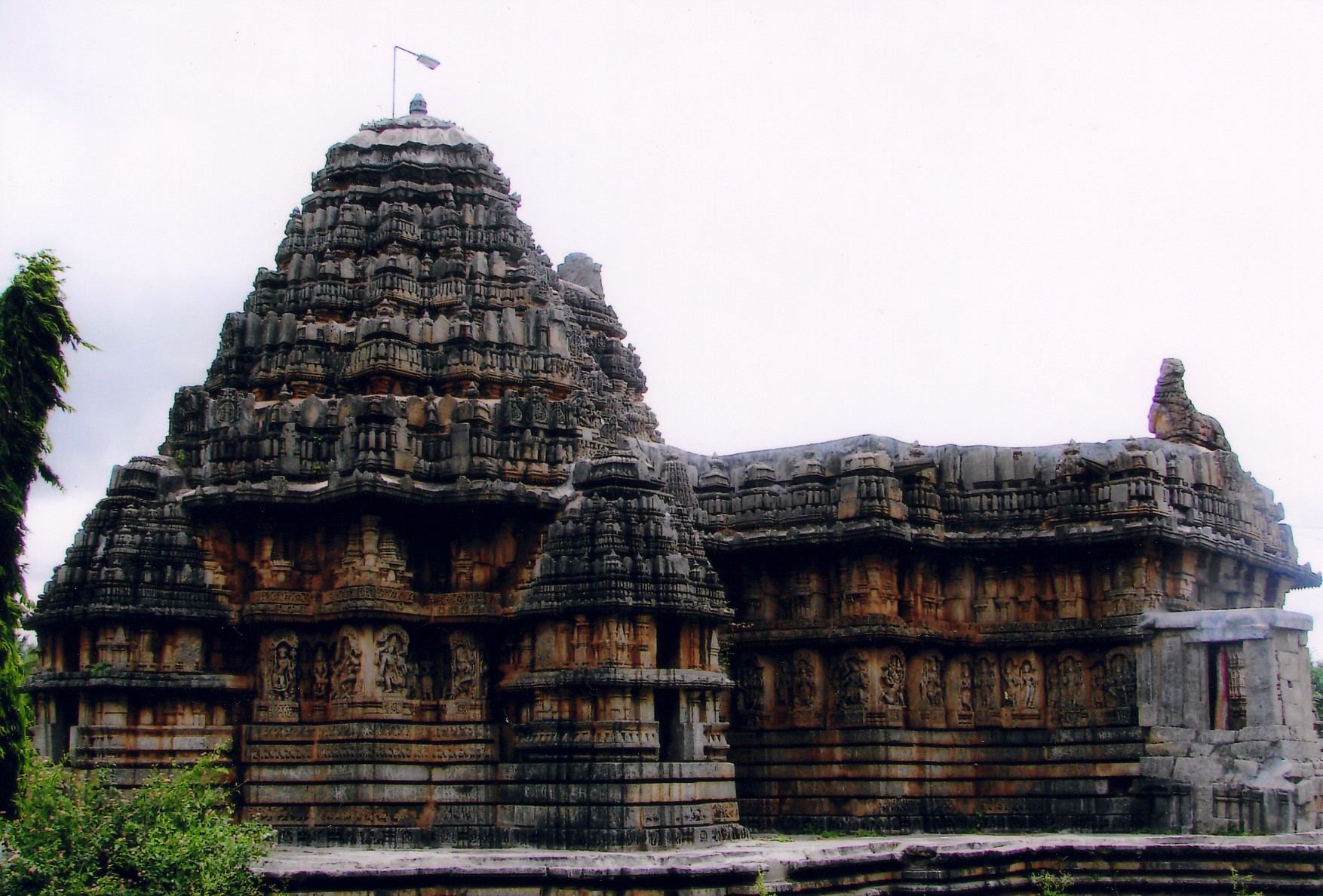 At Somesvara temple (also spelt Someshvara or Someshwara) in Haranhalli, Karnataka, India.